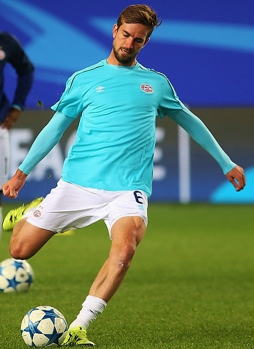 Davy Pröpper